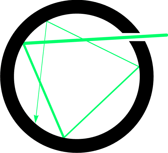 The image depicts the practical implementation of a black body by a small hole entrance to a large cavity with blackened walls. Any light ray entering through the hole is almost entirely absorbed, hence the hole appears as a true black surface. Since the hole is very small, the interior of the cavity contains radiation almost in thermal equilibrium with the walls maintained at a fixed temperature. Hence the hole emits nearly true blackbody radiation.